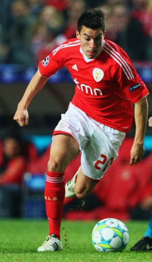 Nicolás Gaitán